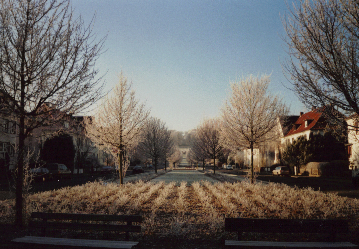 Mittelallee, City of Hildesheim, Germany